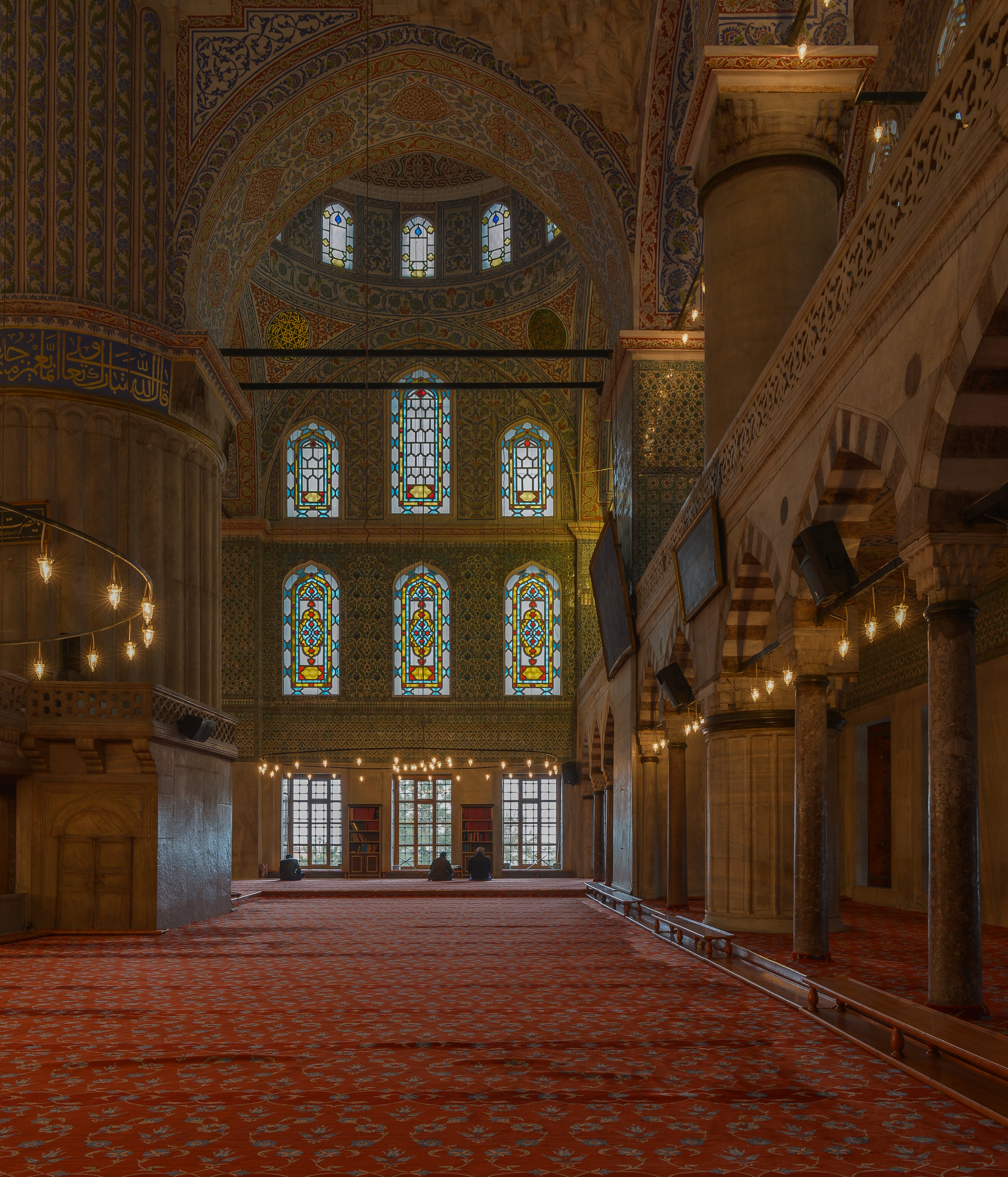 Interior of the Sultan Ahmet Mosque ("Blue Mosque"), Istanbul, Turkey.